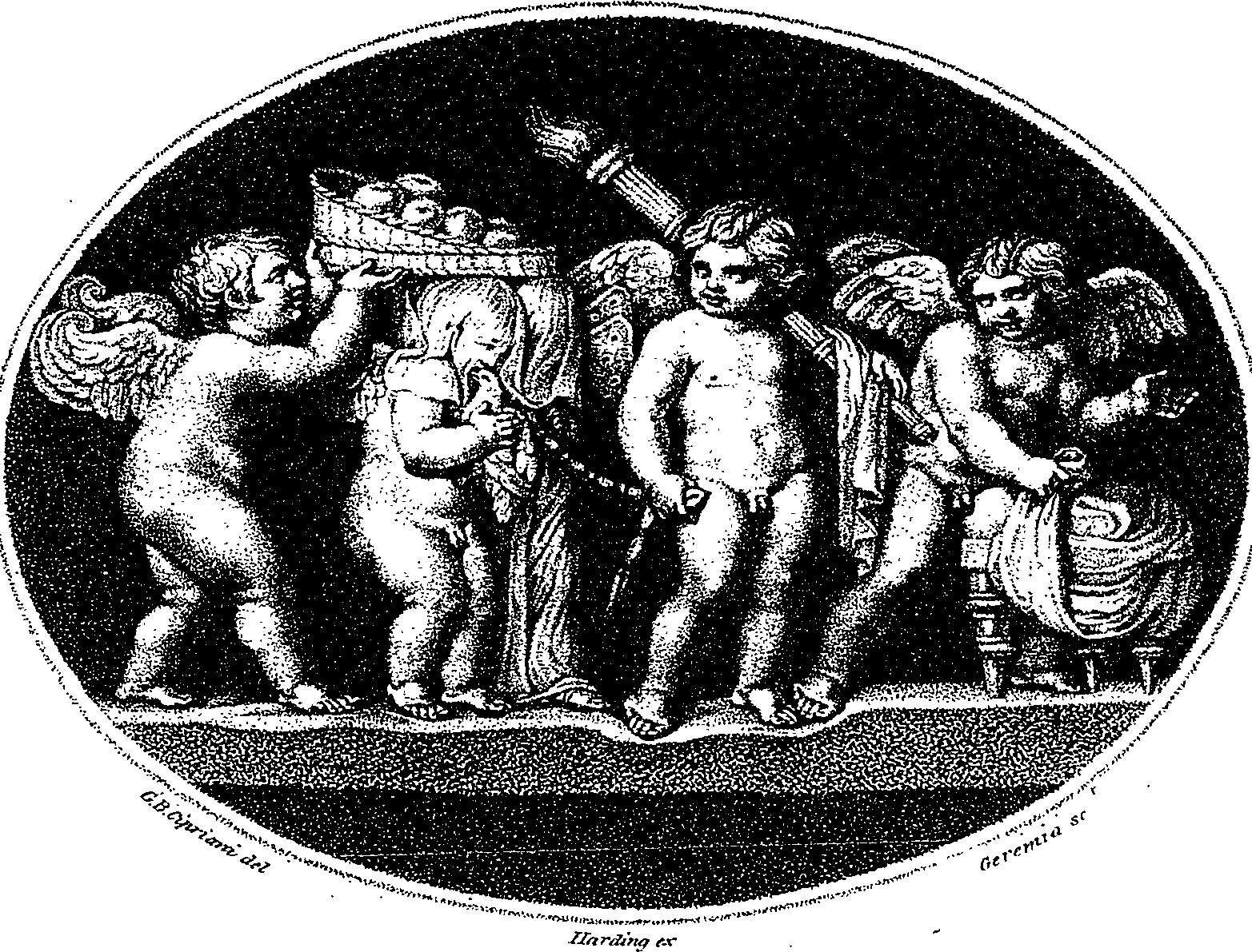 Fleuron from book: Cupid and Psyche: a mythological tale, from the Golden ass of Apuleius.